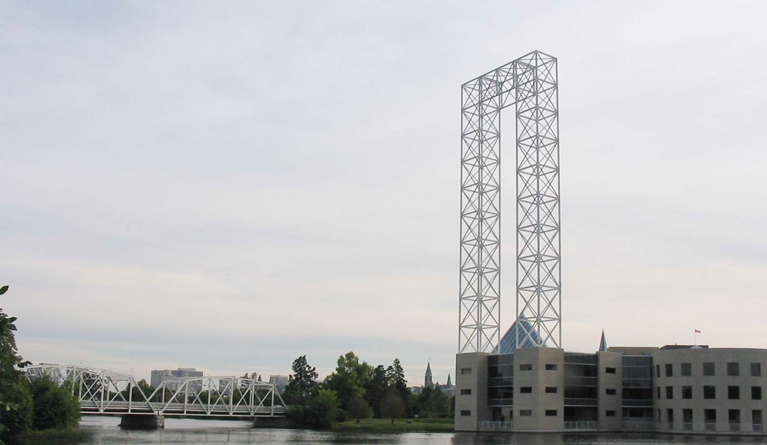 Ottawa's Old City Hall